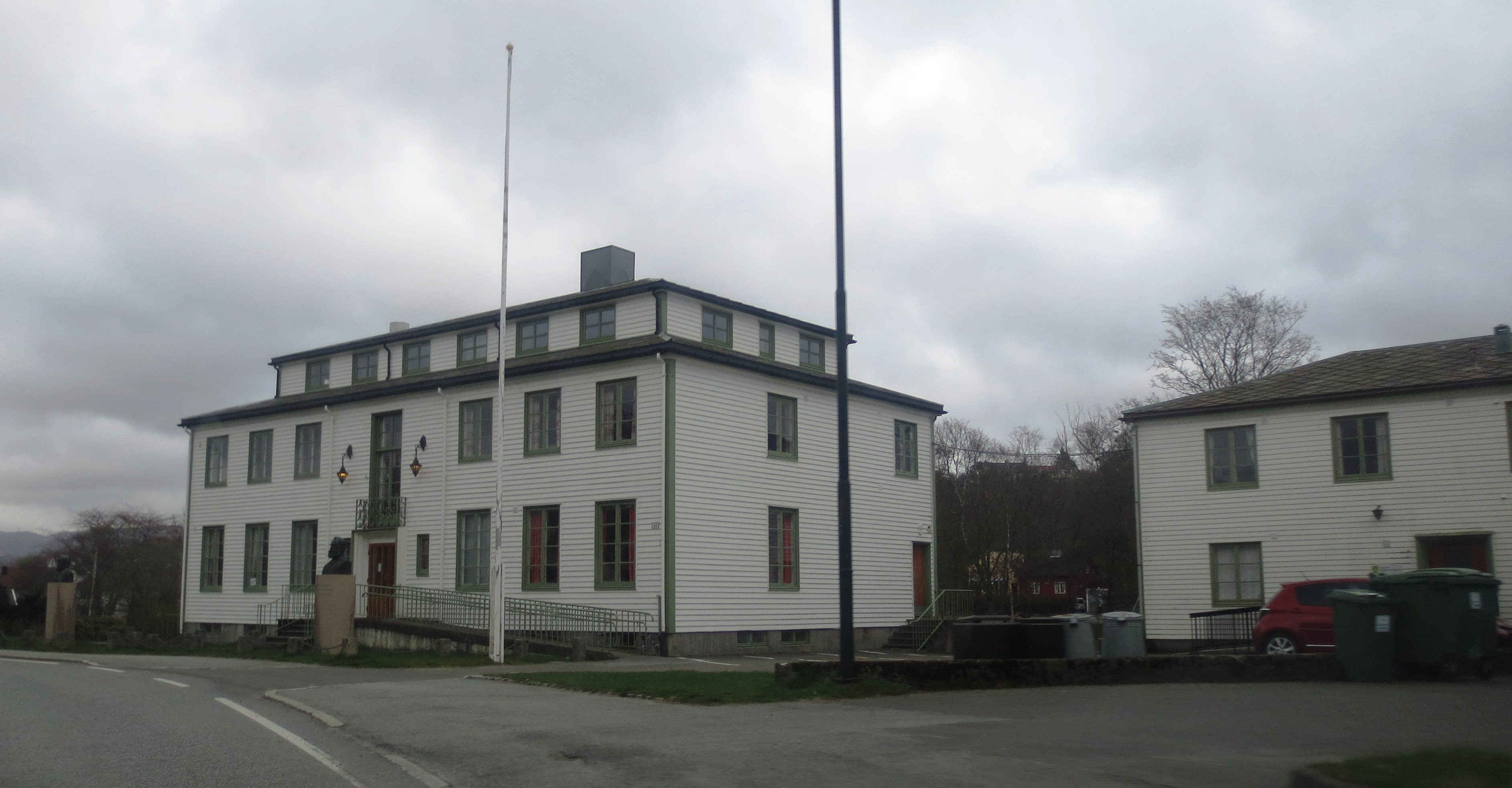 Monumental manor in the settlement of Vanse, - municipality of Farsund, Norway. This was once the city hall, until Vanse was merged with nearby Farsund.